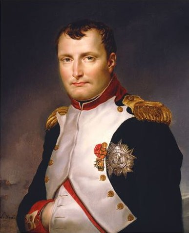 Painting of Napoleon Bonaparte by Jacques-Louis David, 1813